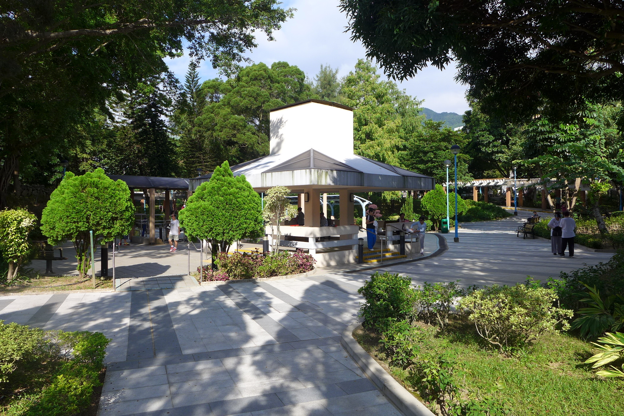 Junction Road Park